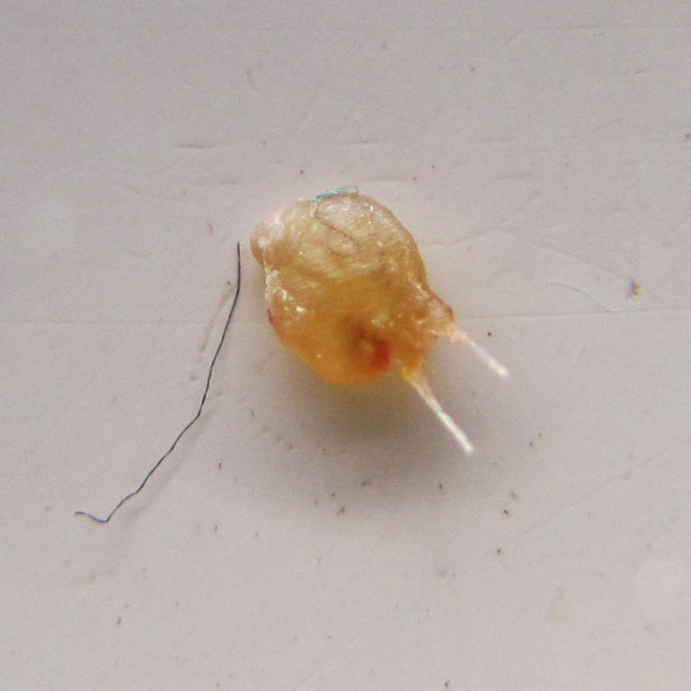 An up close snapshot of a blackhead.